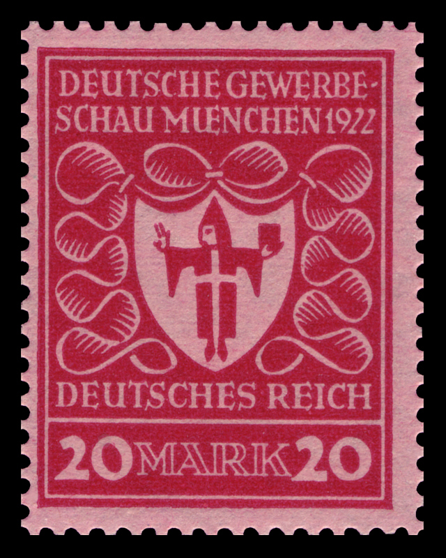 German Trade Show in Munich Ausgabepreis: 20 Mark First Day of Issue / Erstausgabetag: 2. April 1922 Michel-Katalog-Nr: 204 (Deutsches Reich)